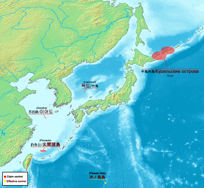 Map of Disputed islands name in East Asia